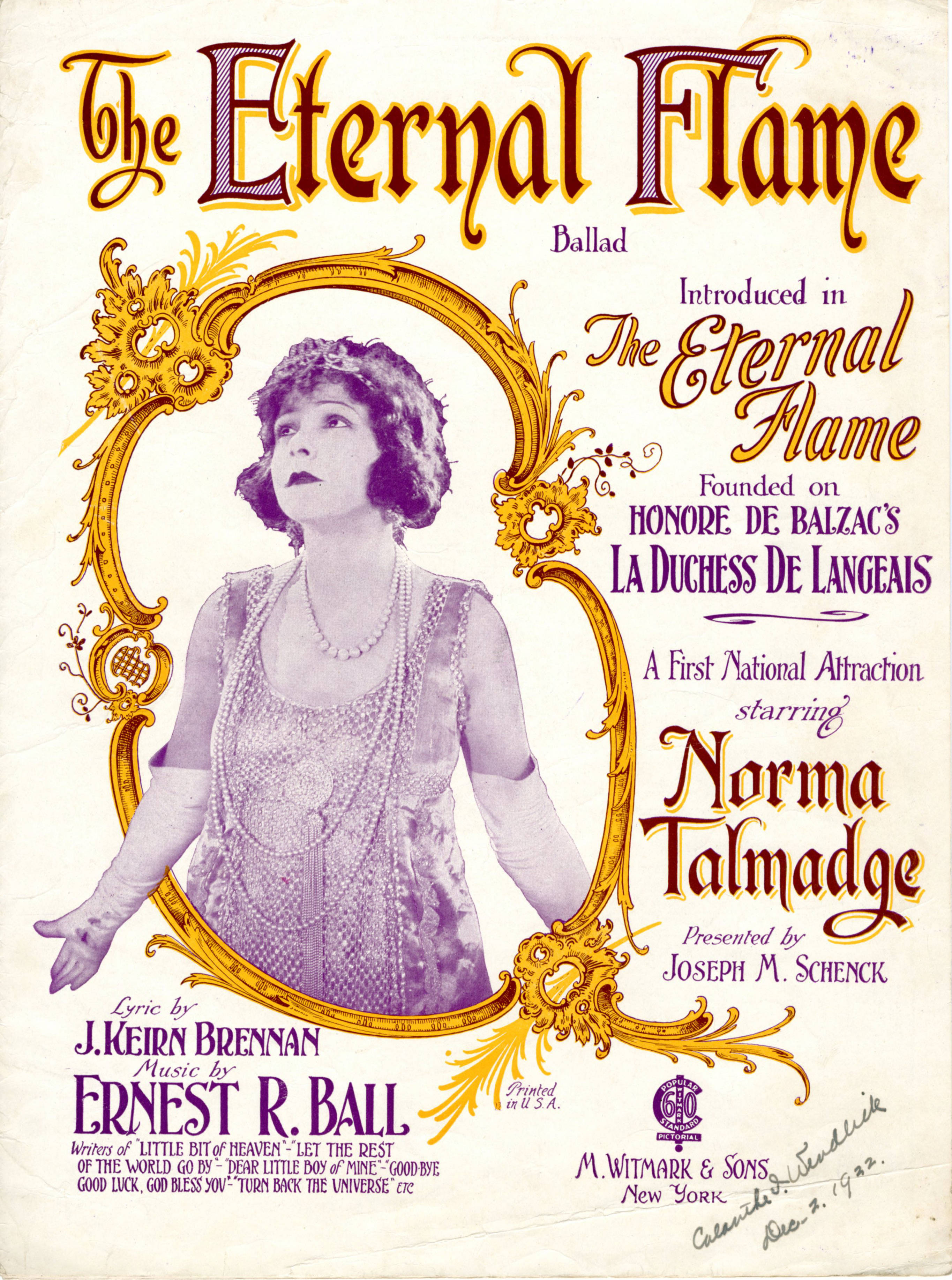 Sheet music cover: "The Eternal Flame : Ballad" 1 vocal score (5 p.) ; 32 cm. Illustrated cover with image of Norma Talmadge. The Eternal Flame (Motion picture : 1922)